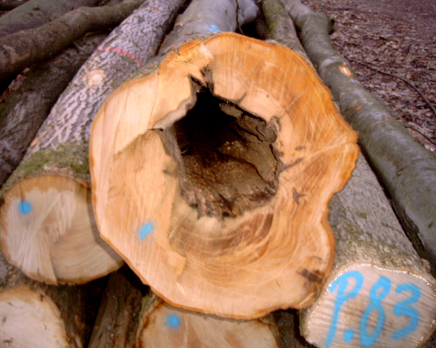 ill-tree in Germany